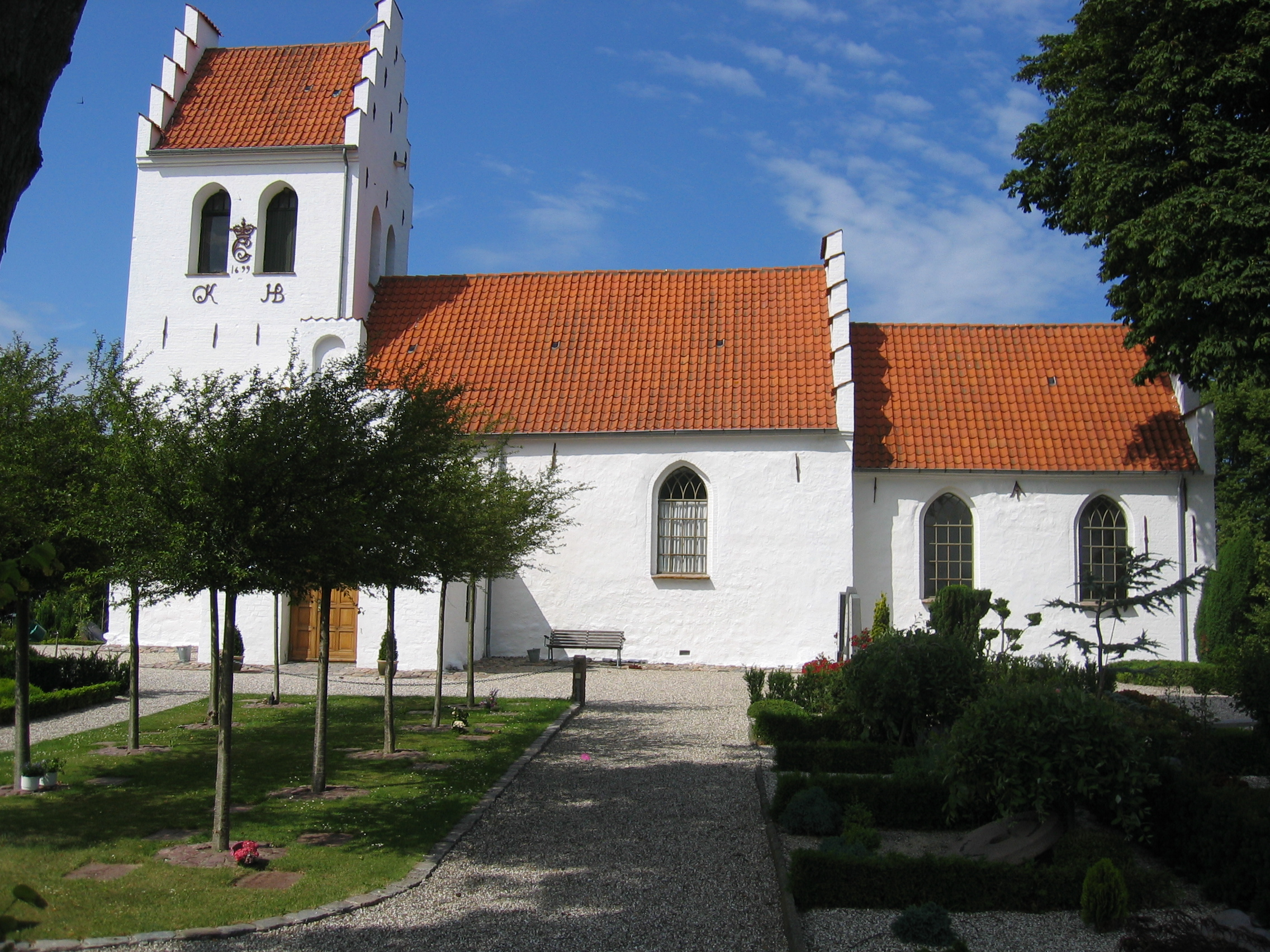 Annisse Church, Annisse parish, Holbo Herred, Frederiksborg County, Denmark.